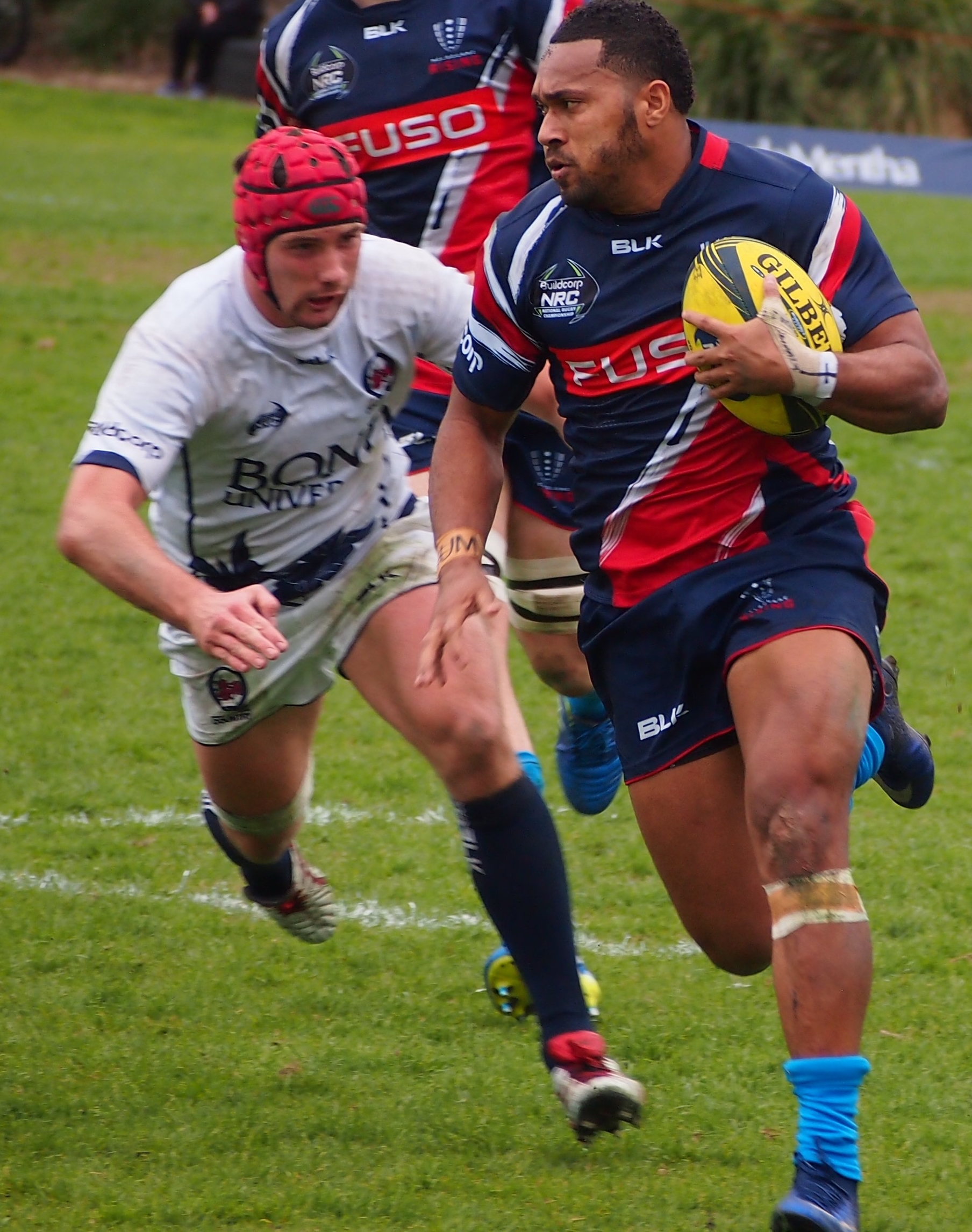 Sefanaia Naivalu playing for Melbourne Rising during NRC against Queensland Country